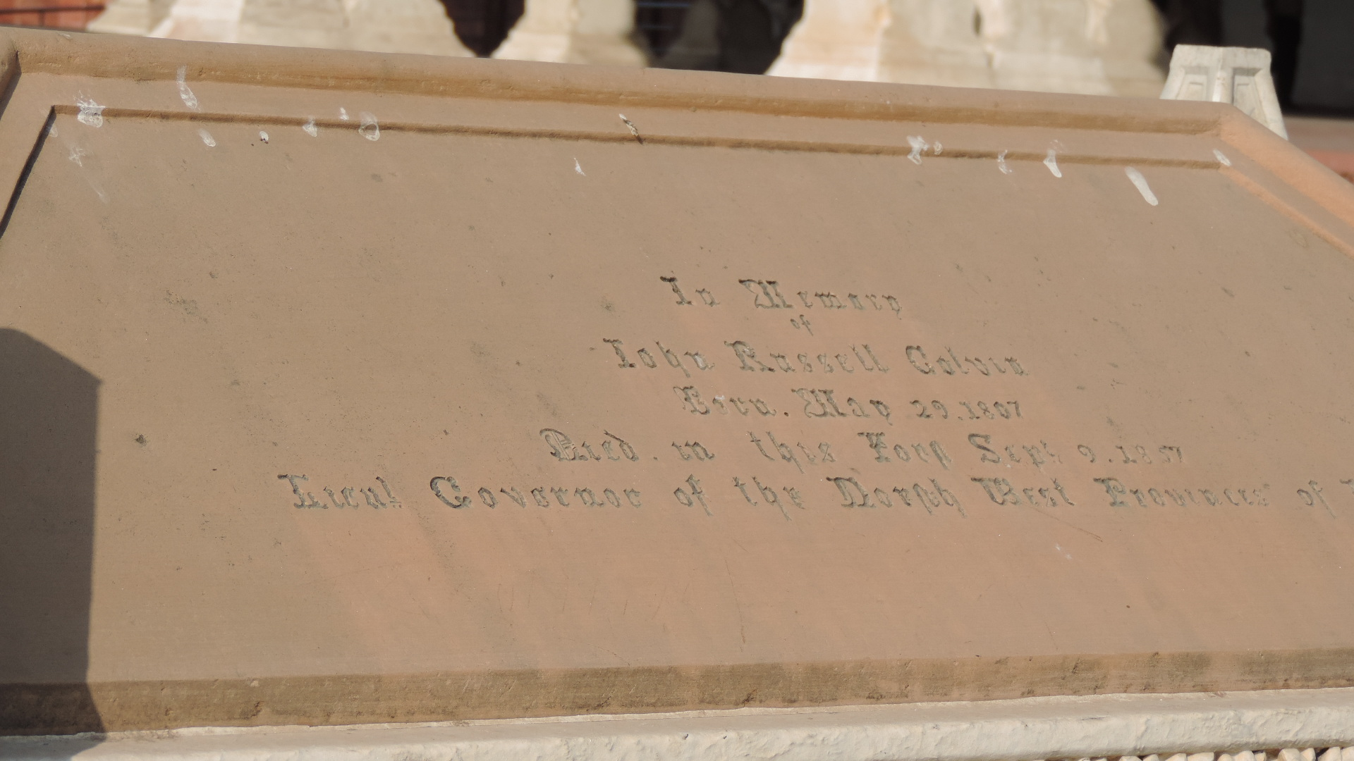 John Russell Colvin, closeup of inscription on tomb, 2013